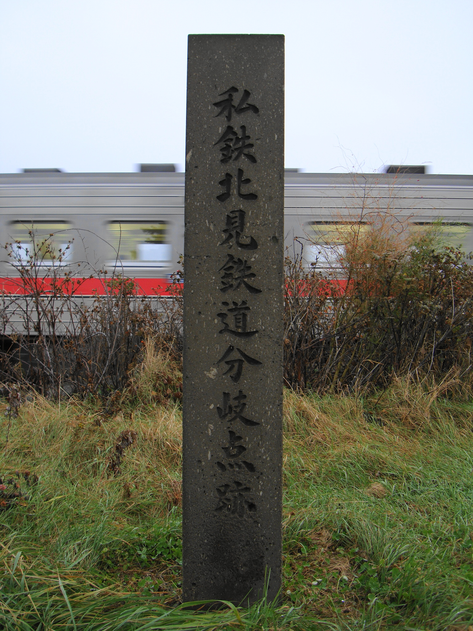 Kitami Tetsudō removal trace on Yamubetsu Station